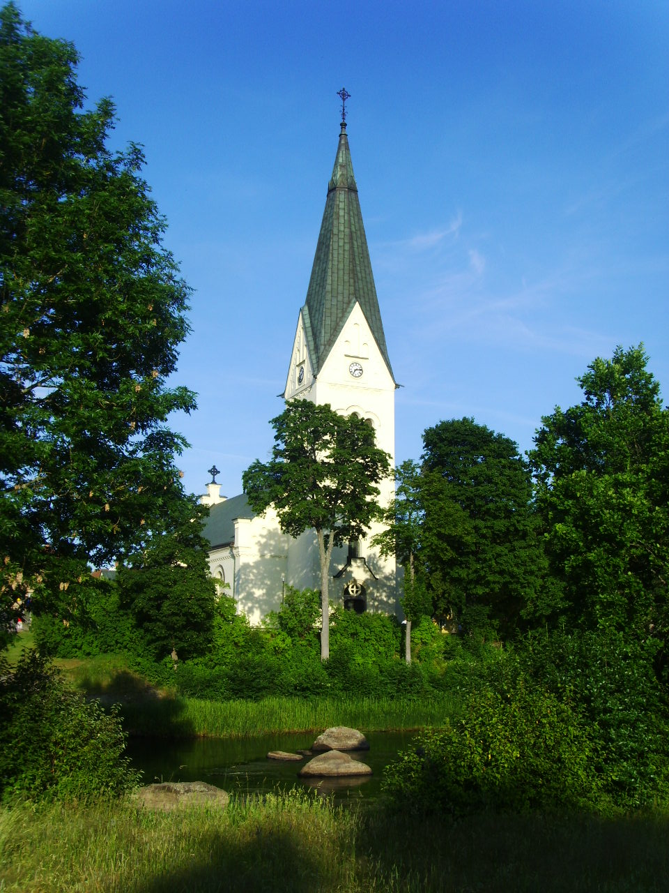 The church in Högsby, Sweden.